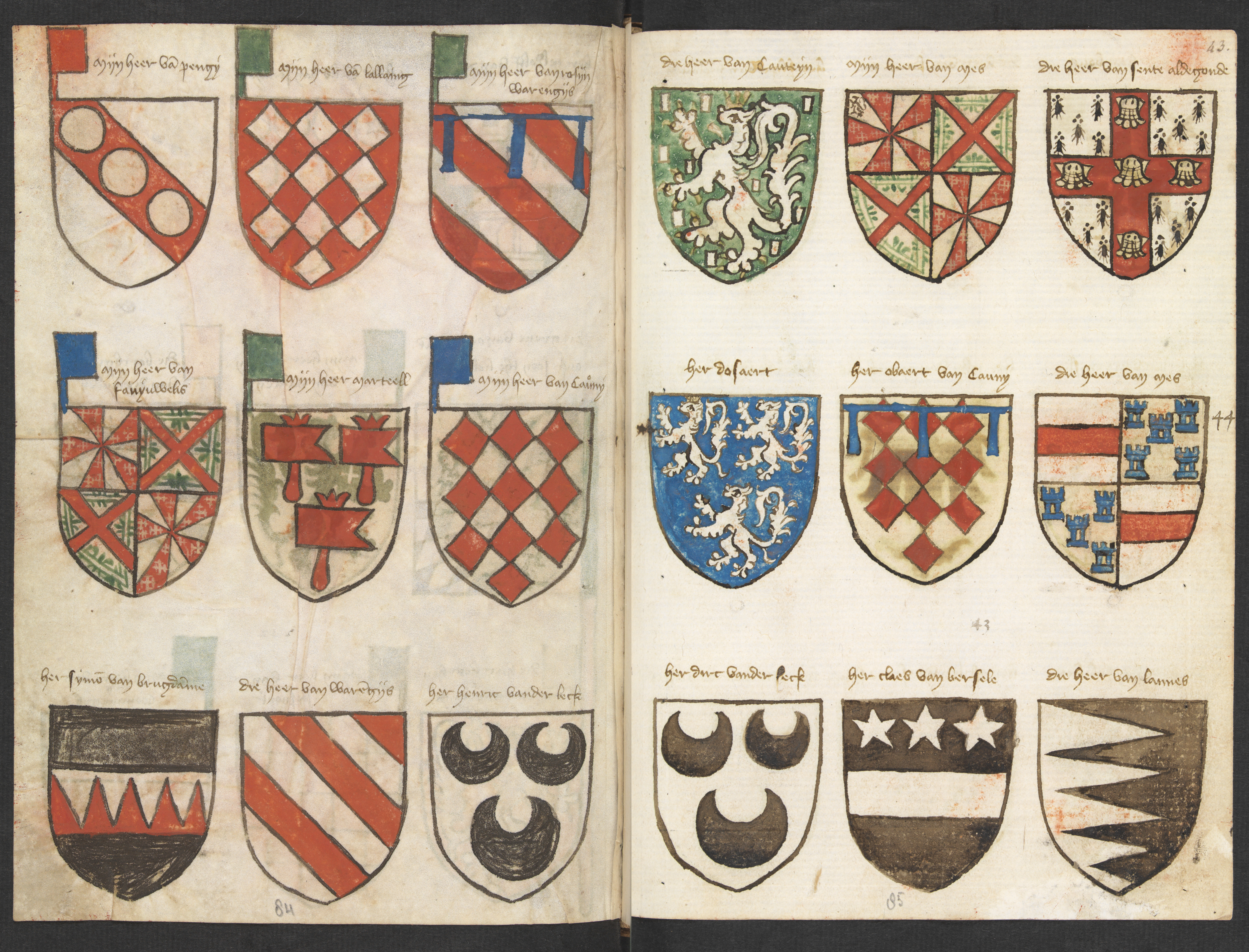 Lefthand side folio 042v; righthand side folio 043r from the Beyeren armorial / Wapenboek Beyeren